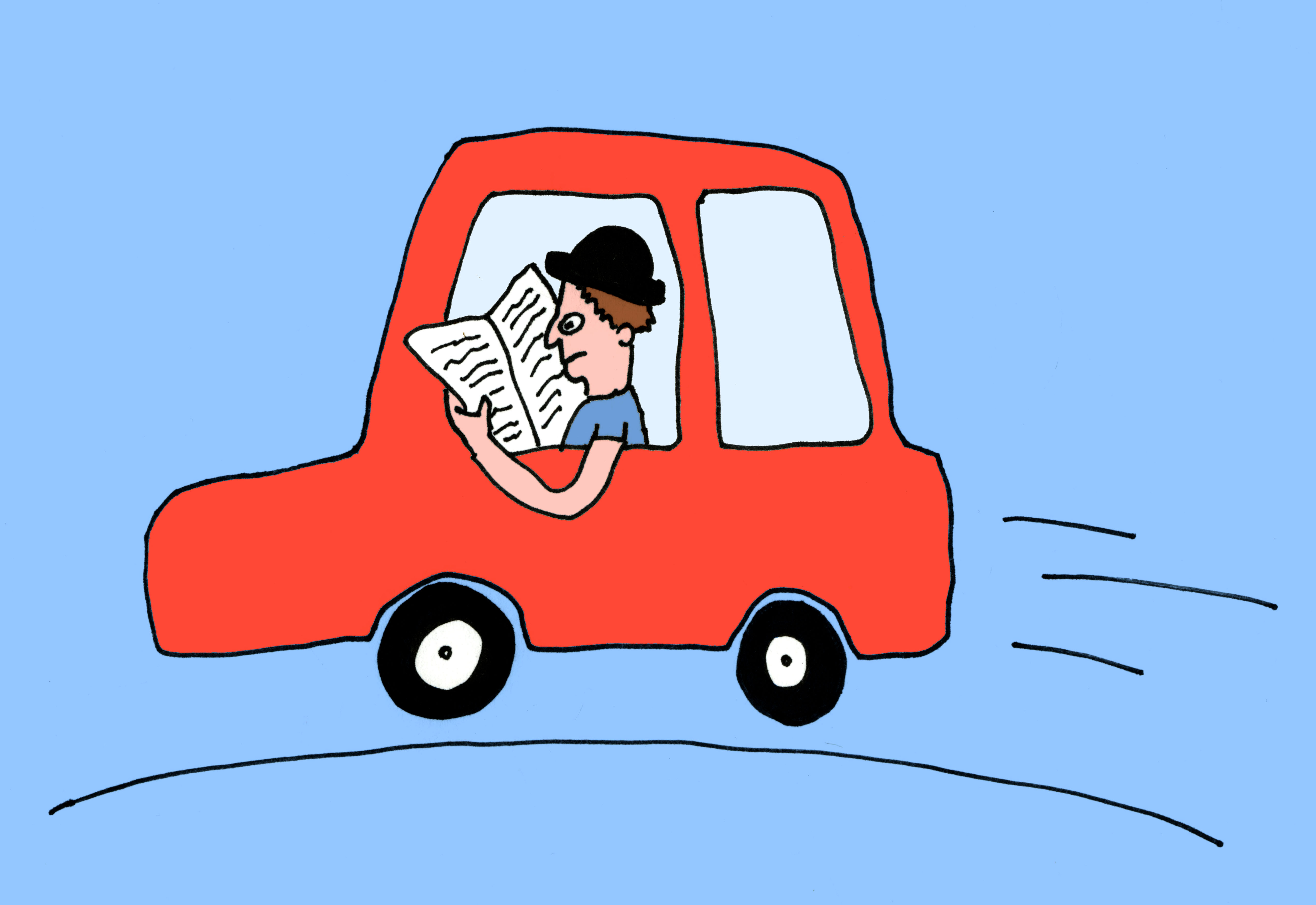 a driver reading a newspaper